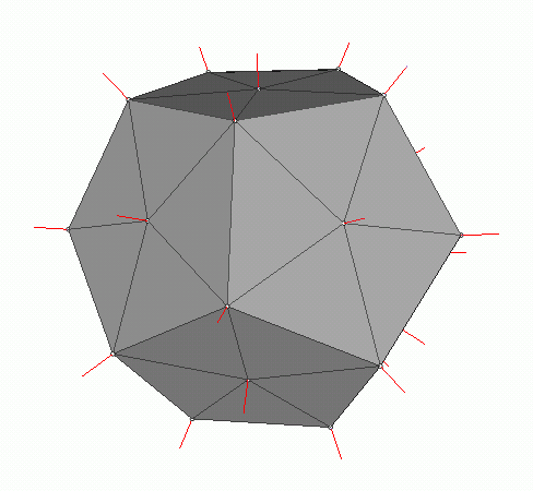 Vertex normals of a polygonal mesh. The normals are the average of the normals of the adjoining faces.